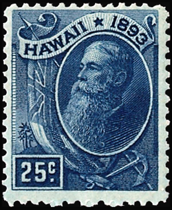 Stamp of Hawaii, 25¢, 1894, deep blue, President Sanford B. Dole, Scott 79.